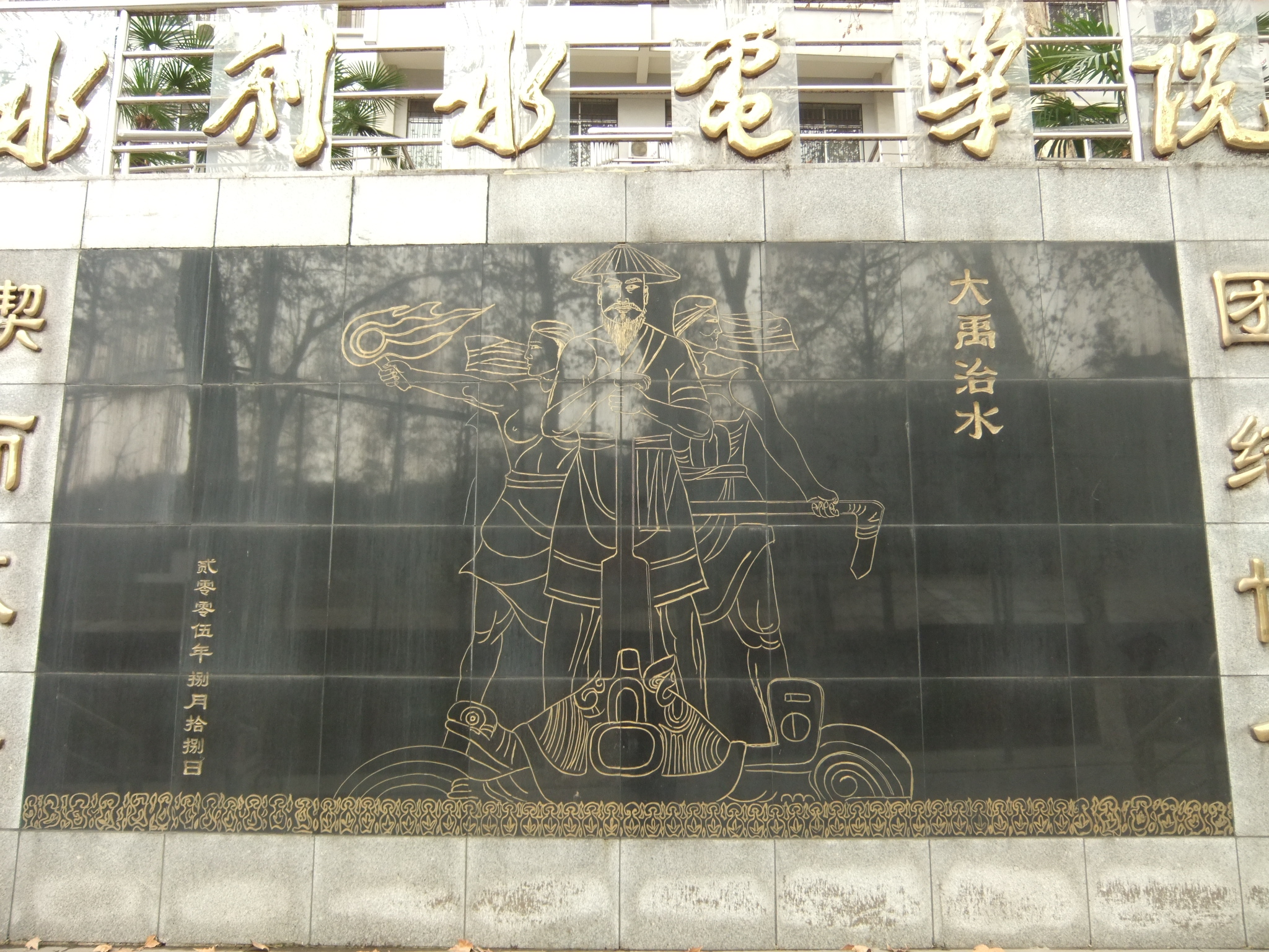 The National Laboratory for Water Resources and Hydropower Engineering Science at Wuhan University's main campus. The building is decorated with a relief entitled “Yu the Great controls the waters" （大禹治水）and depicting Yu the Great, with his trusty turtle, leading the best reprsentatives of China's people in their struggle with the flood. The piece of art is dated 2005.